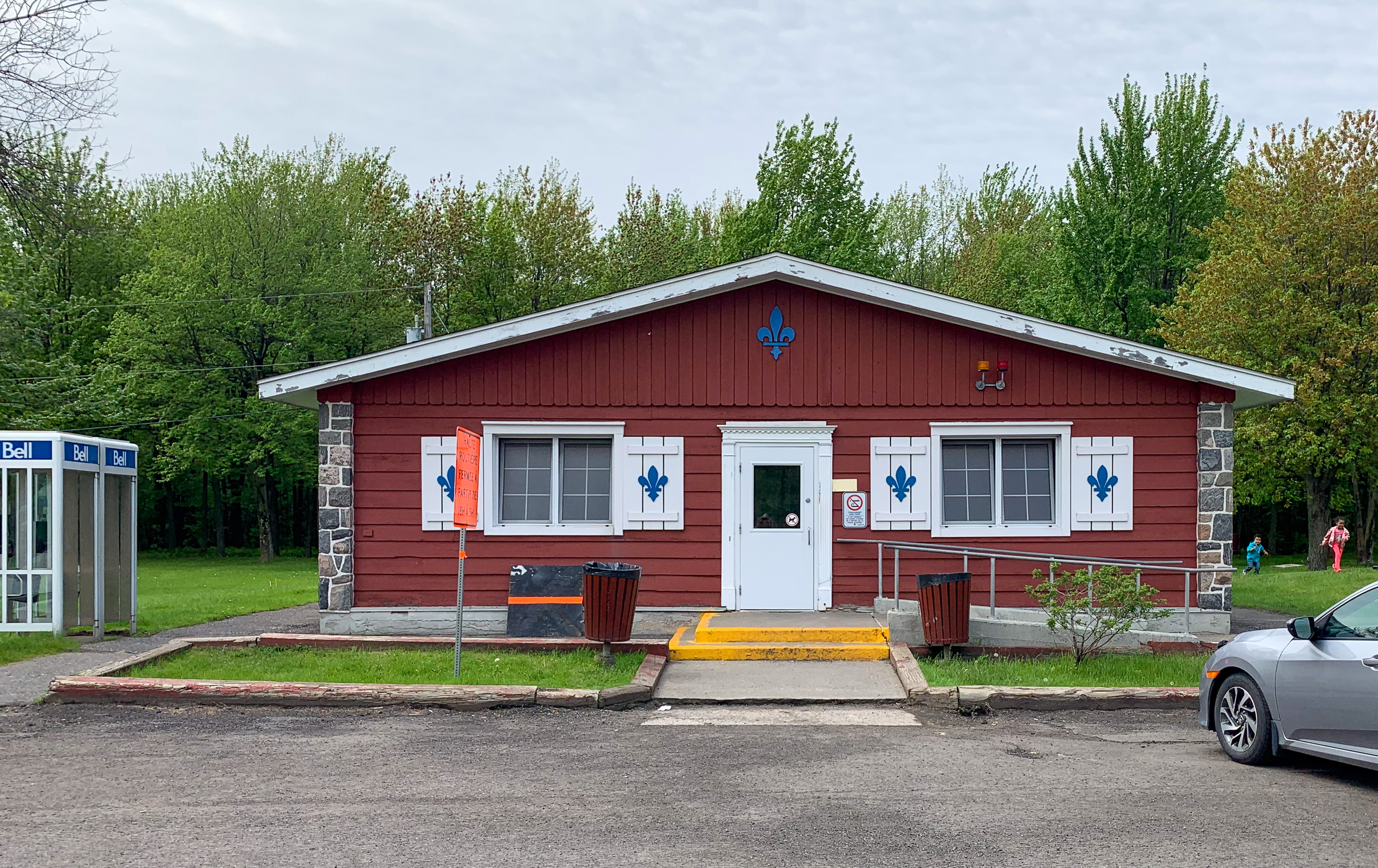 Rest stop Halte des Hurons,Autoroute Jean-Lesage, Sainte-Marie-Madeleine, QC, Canada.Trans-Canada Highway, route 20. Westbound.